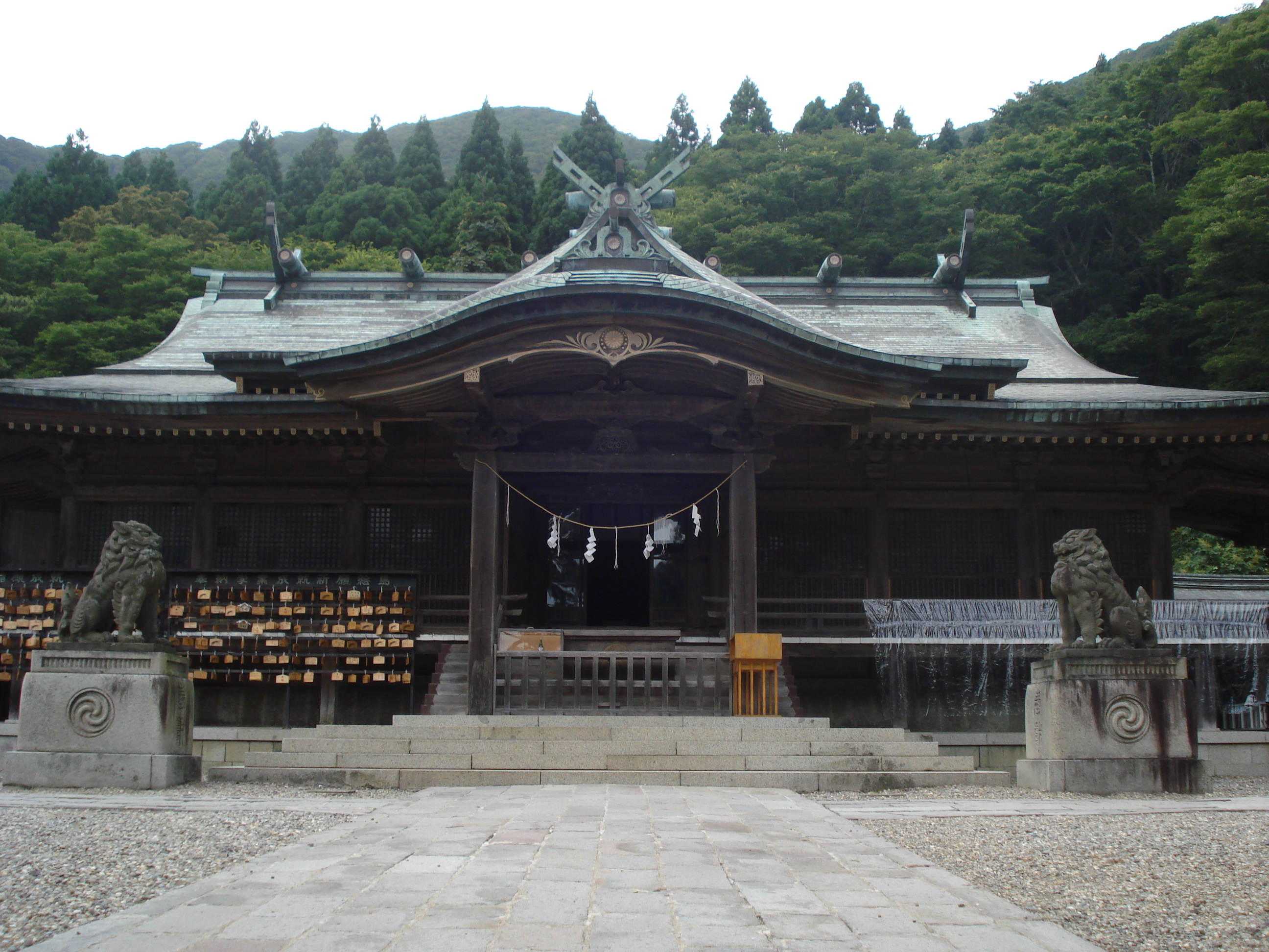 Hakodate Hachiman Shine